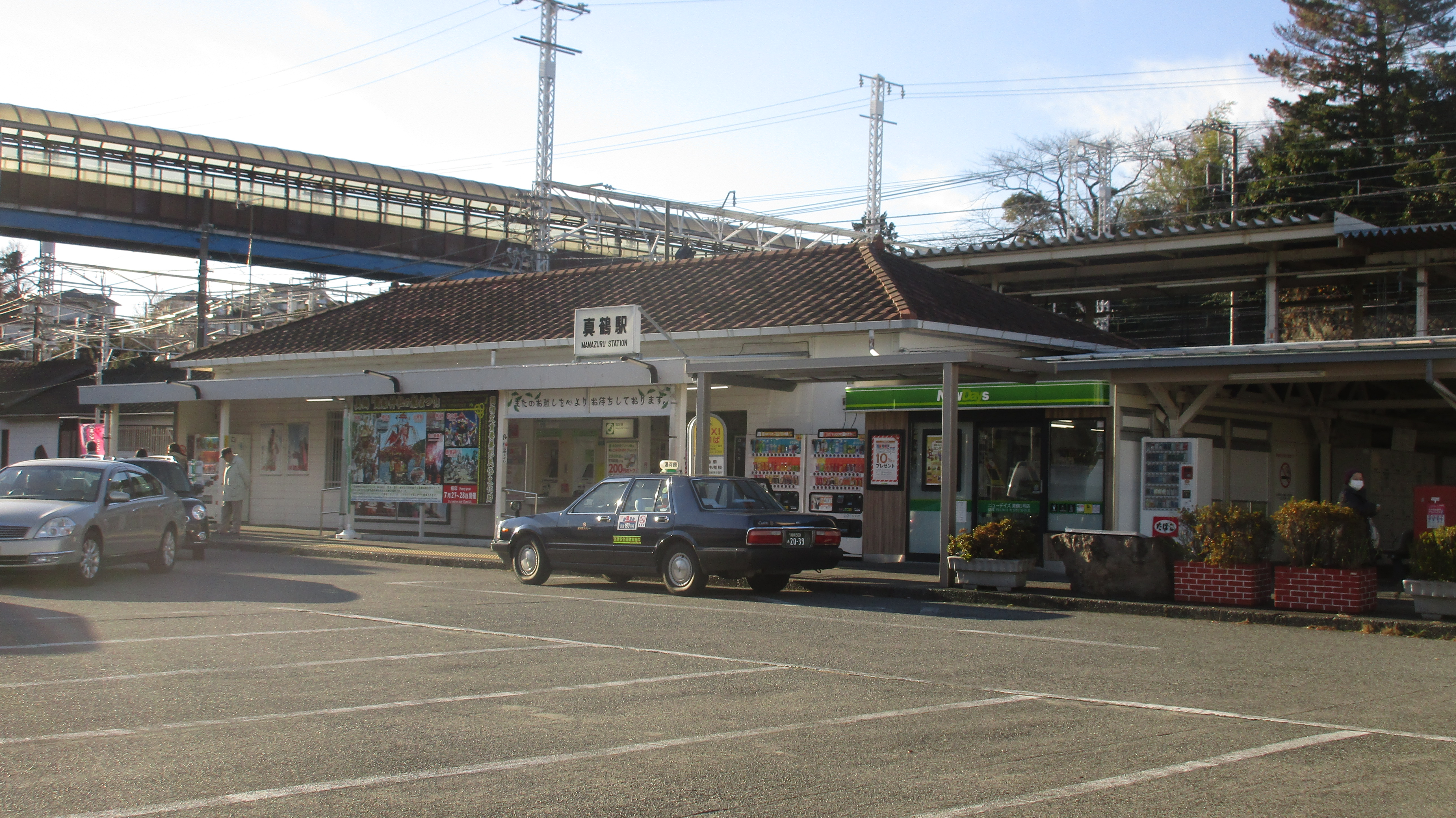 JR東海道本線 真鶴駅舎